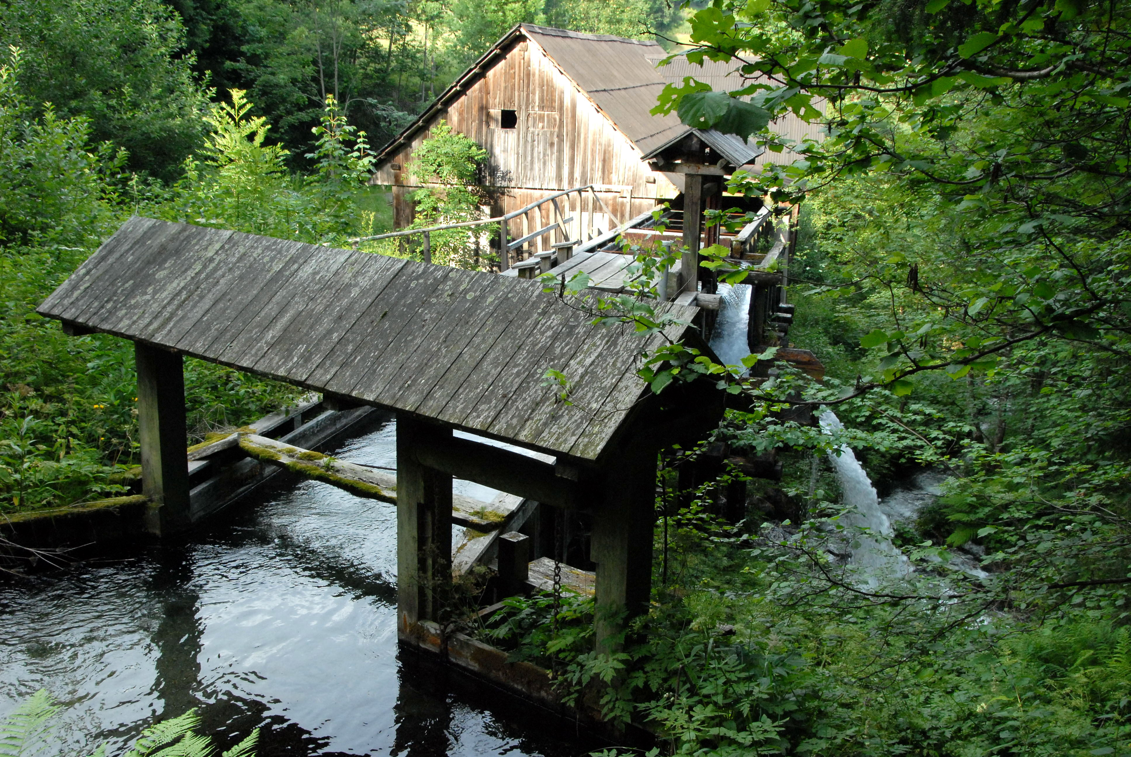 Historic mill at the wellsprings of the Tiebel river at Tiebel, municipality Himmelberg, district Feldkirchen, Carinthia, Austria